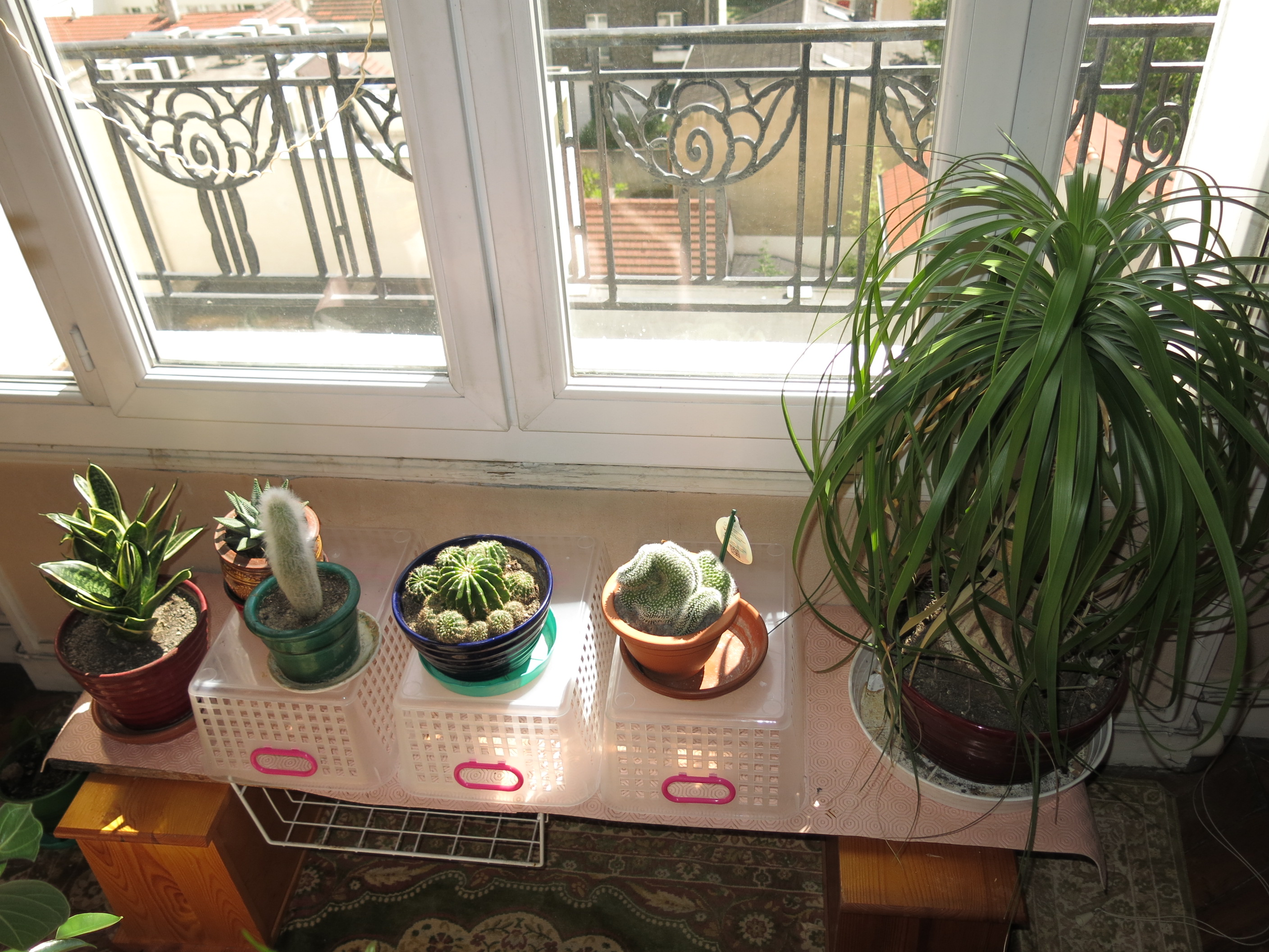 Shelf at the bottom of a window. Ideal to grow cactus or succulent plants. From left to right : Sansevieira, Espostosa, Echinopsis, Cleistocactus strausii monstruosa, Beaucarnea.